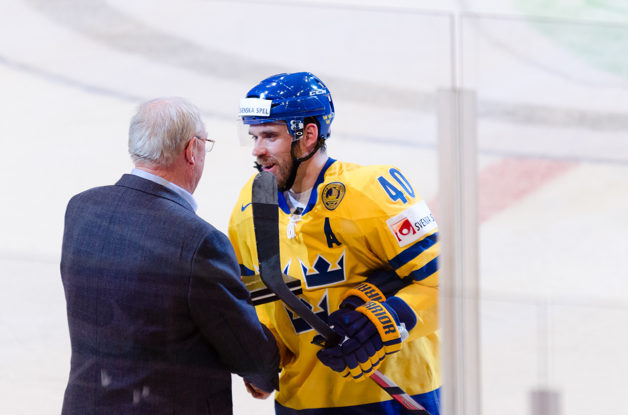 Henrik Zetterberg, 2012 IIHF World Championship.